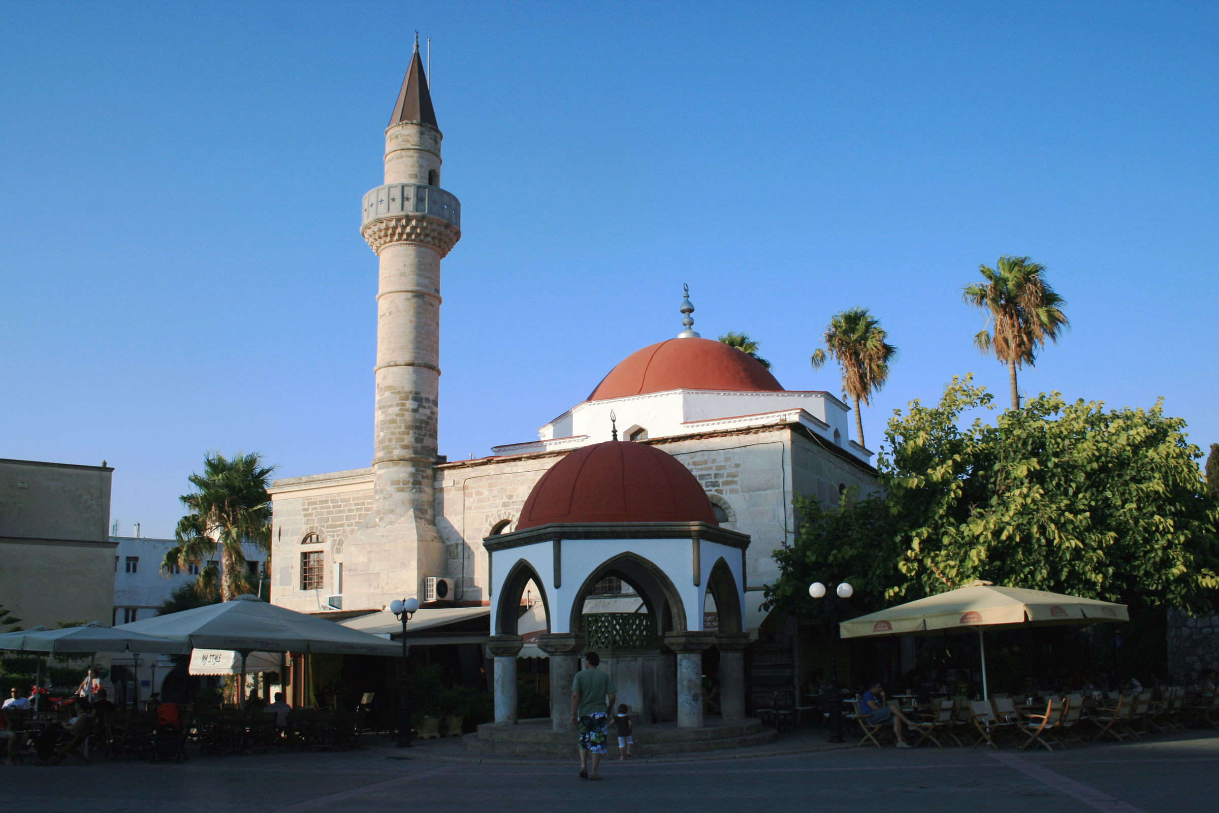 Mosque with minaret near building of old marketplace Agora in town Kos on Kos island, Greece